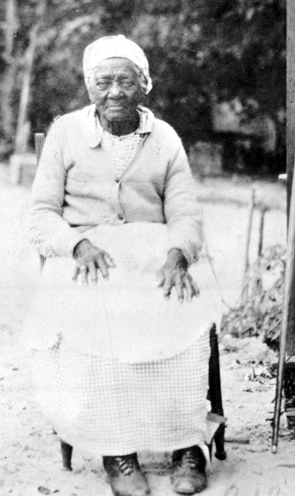 Easter, a former slave at Kingsley Plantation on Fort George Island, Florida